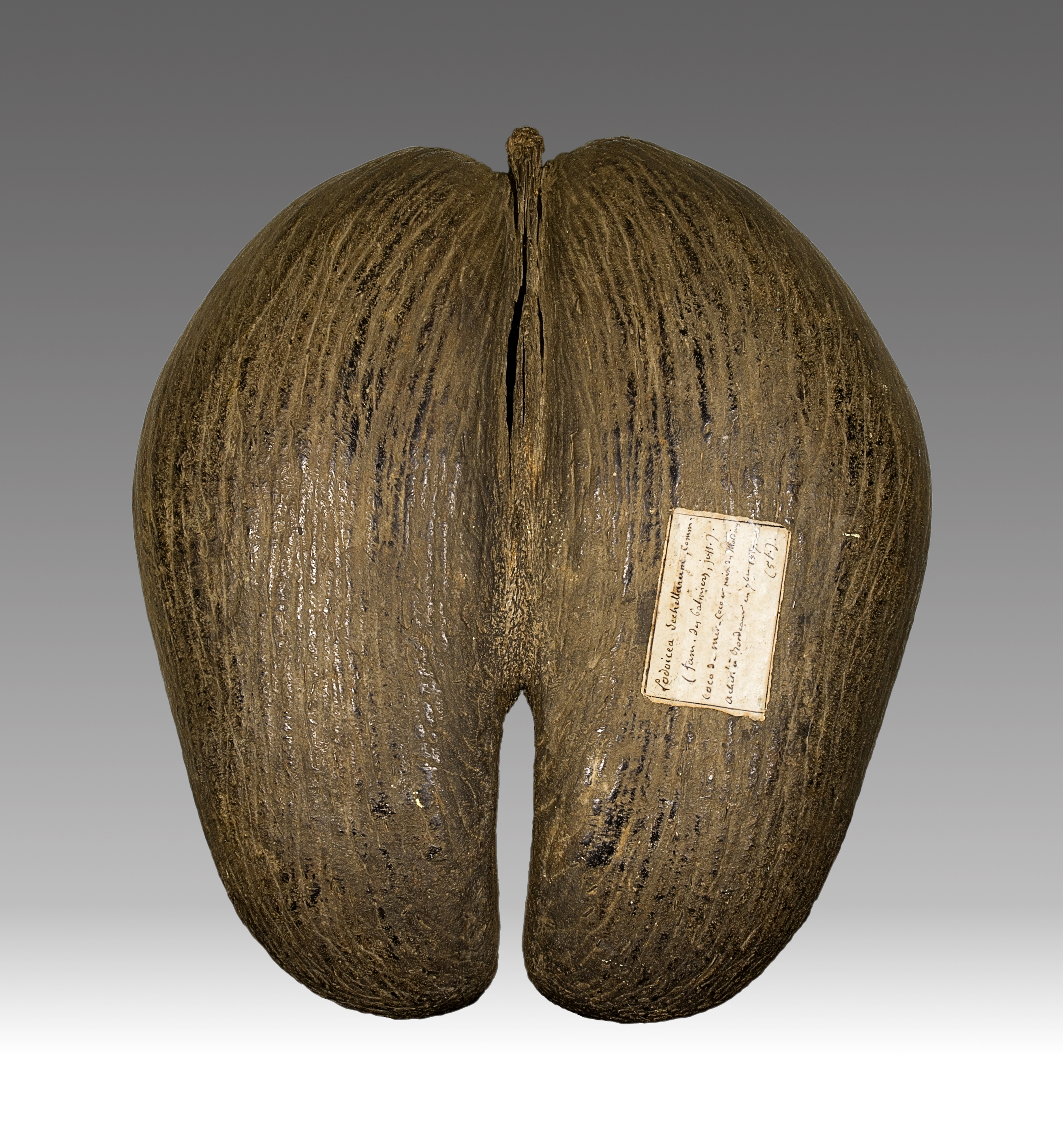 Lodoicea maldivica - Ripe fruit of Coco de Mer - Old collection of de Benjamin Balansa (1825-1891) Size : 30x27x15 cm